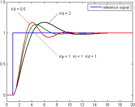 Change of response of second order system to a step input for varying Kd values. Prepared for use in PID controller article.